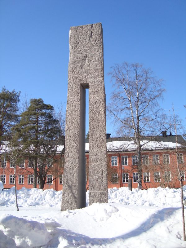 Umeå sculpture park/Sweden with Untitled (2001) by Bard Breivik.